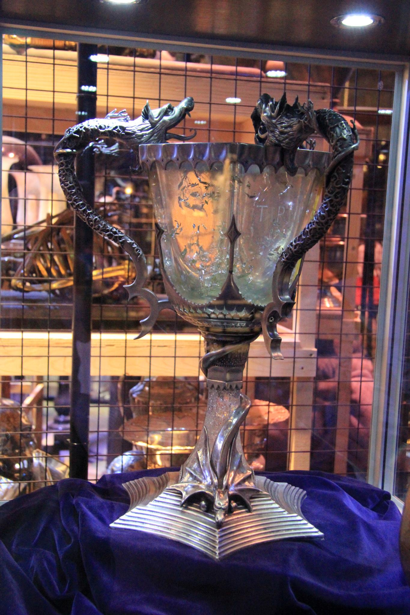 Warner Bros. Studio Tour London: The Making of Harry Potter.